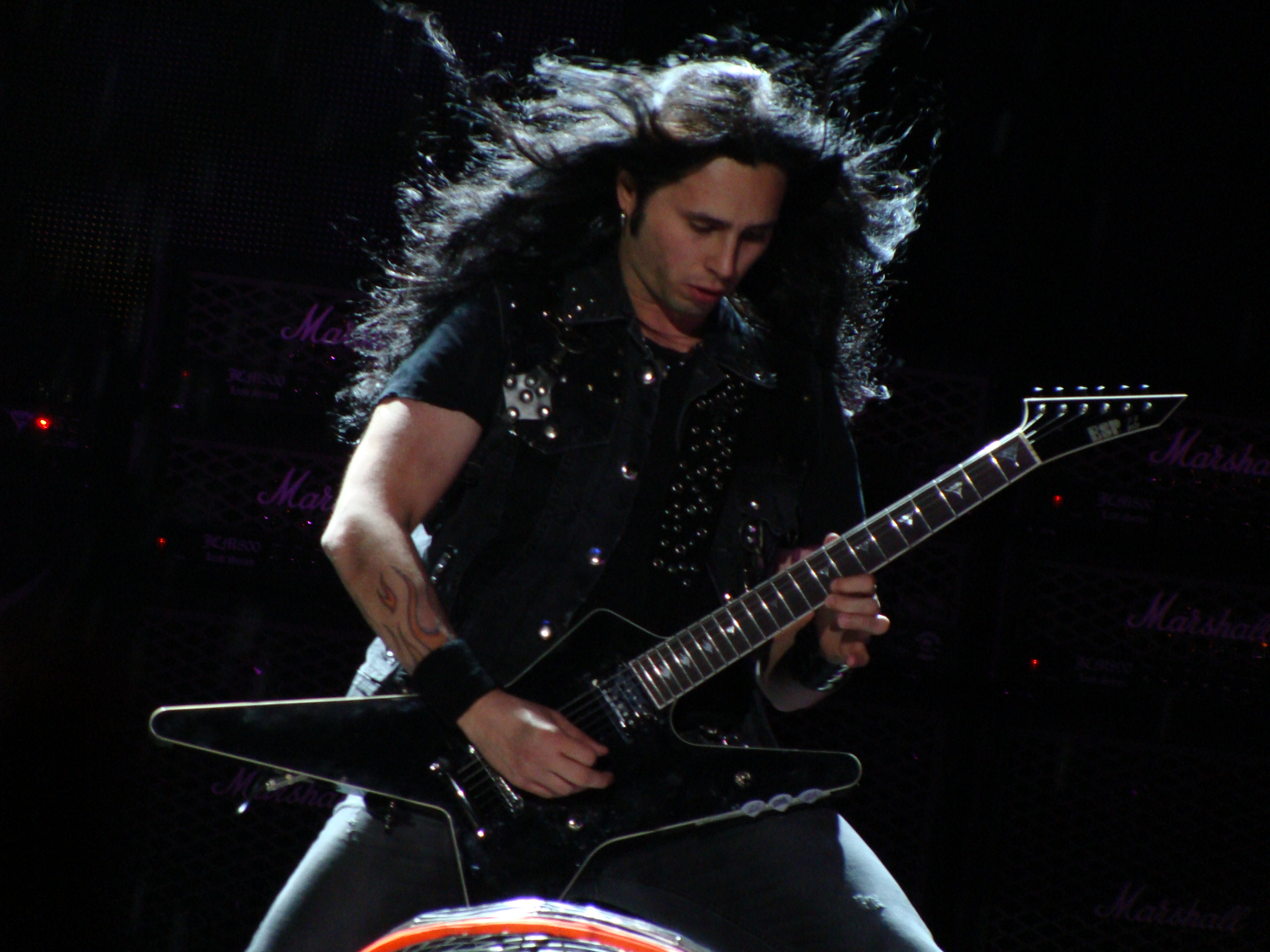 Gus G, guitarrist of Ozzy Osbourne, performing live at Azkena Rock Festival.